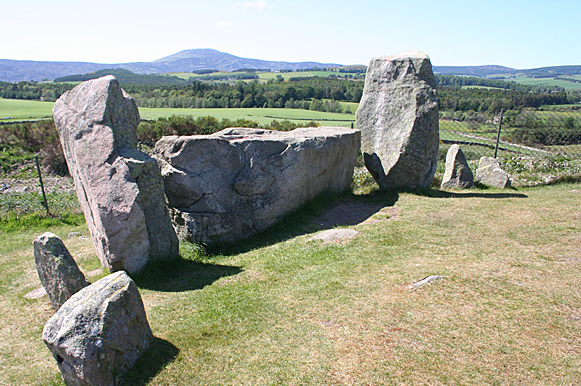 Tomnaverie Stone Circle